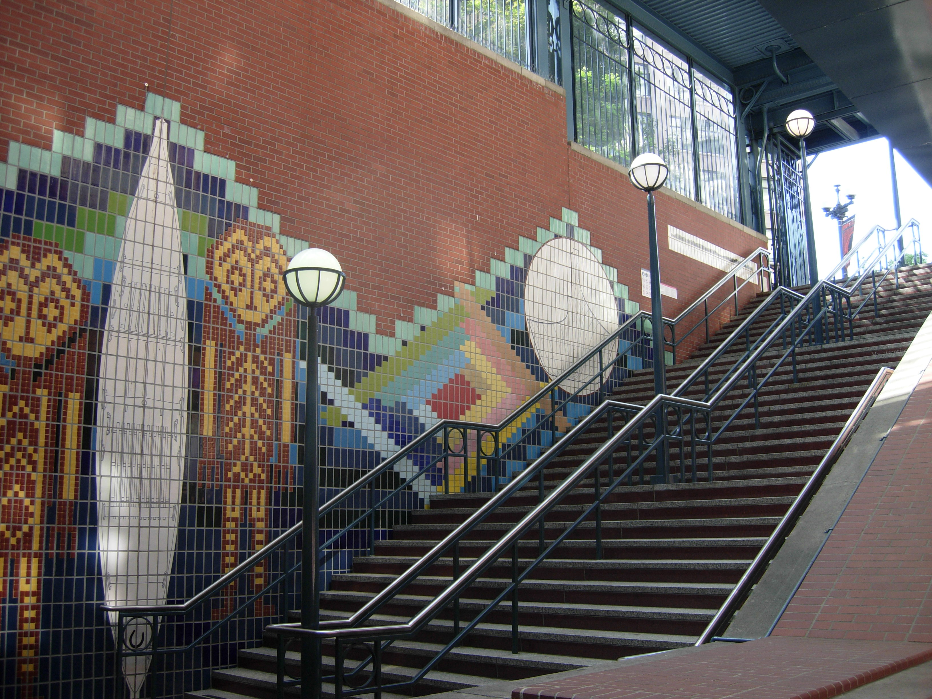 Some the artwork in the Pioneer Square Station. I took this photo myself 8-15-2009.